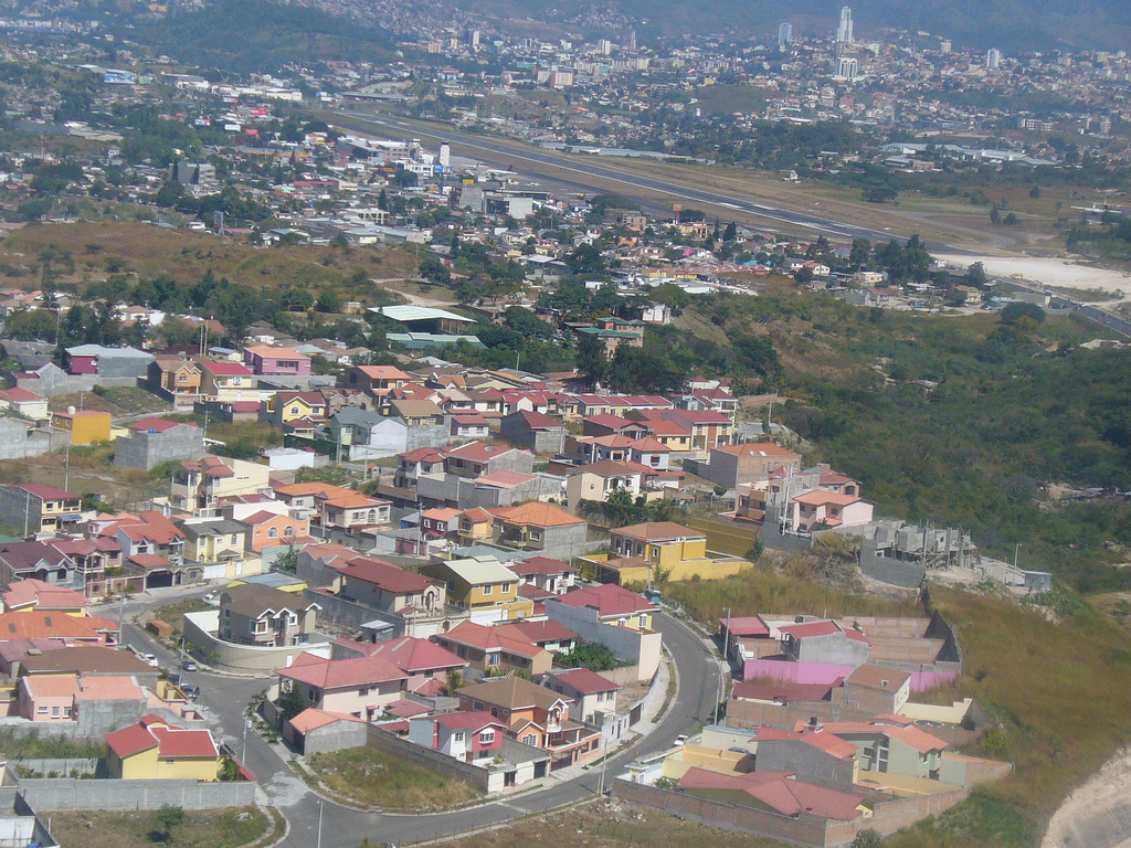 On base for runway 02, here we must have at least 20 degrees of bank, its amazing how close we get to the houses. I recommend an A window seat if you wanna feel the thrill!